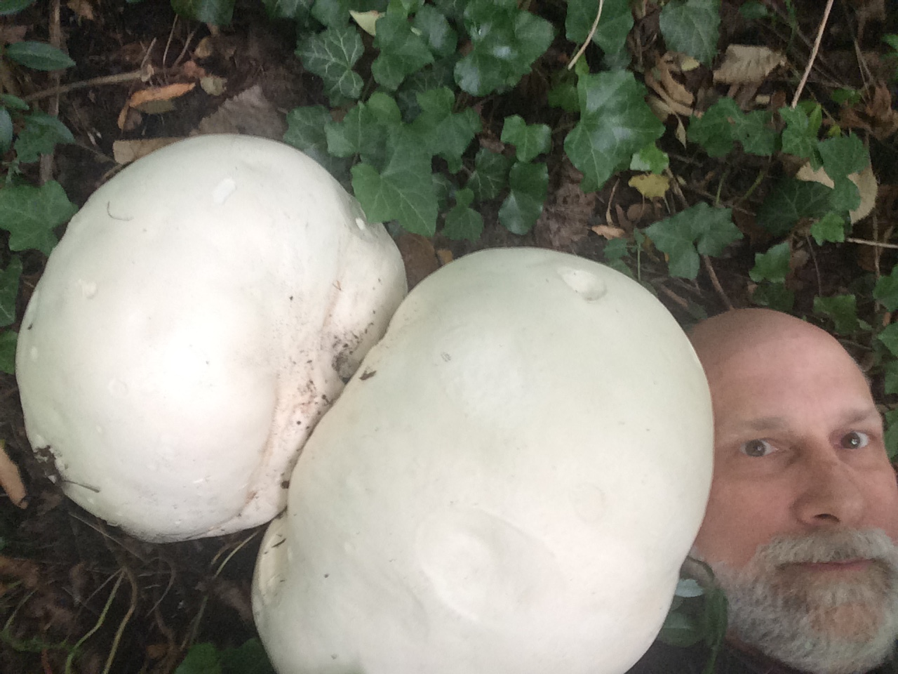 Giant Puffball Mushroom next to human head. Darien CT October 4, 2016